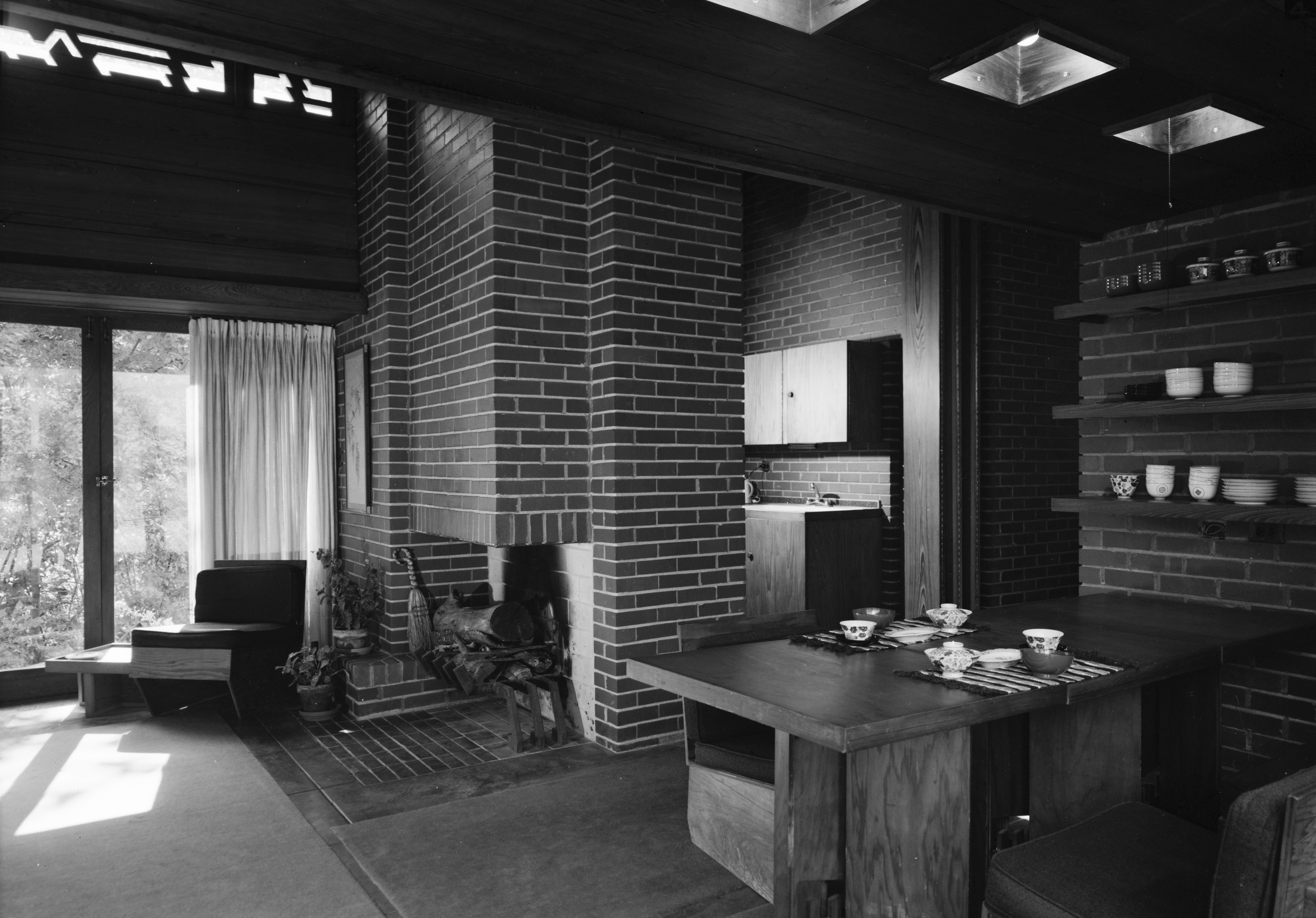 Interior, general view looking south, showing junction of living room, dining area, and kitchen - Pope-Leighey House, 9000 Richmond Highway (moved from Falls Church, VA), Mount Vernon, Fairfax County, VA